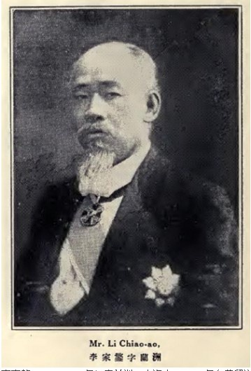 Li Jia'ao (1863-1926)